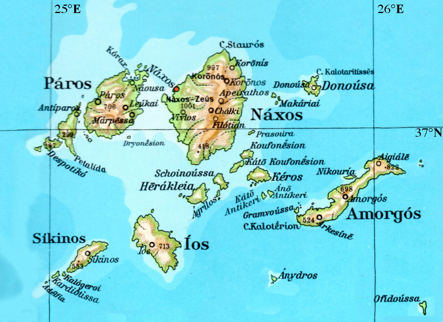 Naxos island & neigbour islands